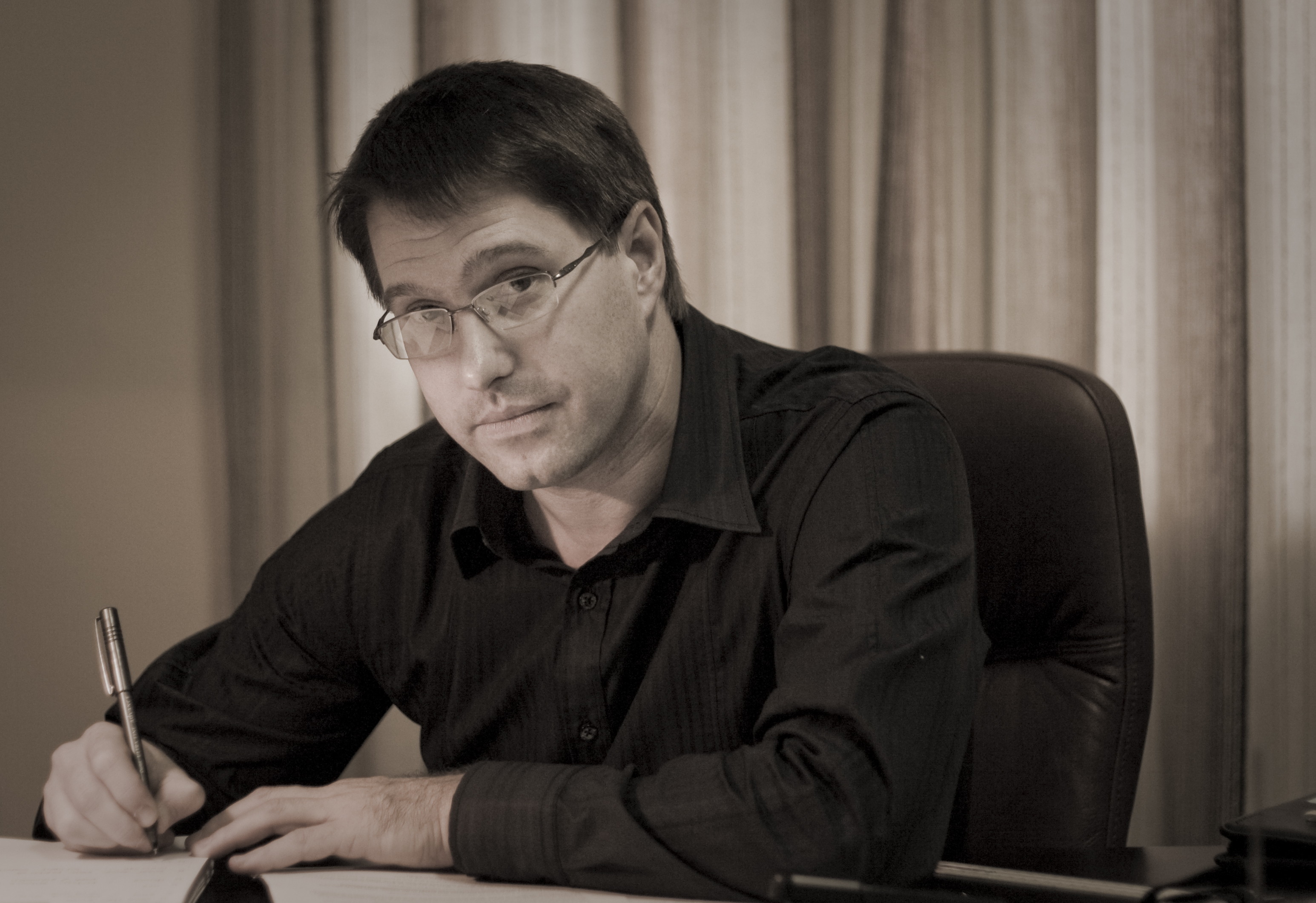 David Maynier - Democratic Alliance Member of Parliament.